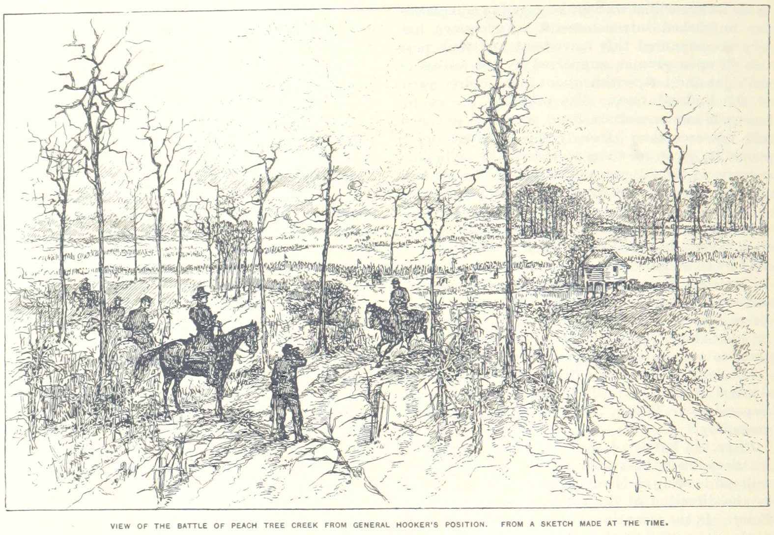 The Battle of Peachtree Creek as seen from General Joseph Hooker's position.